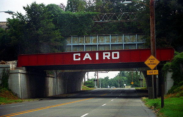 US 51 southbound, heading under a set of multiple structures on the north end of Cairo, Illinois. The northernmost, an iron railroad bridge built by the American Bridge Company, is red with "CAIRO" in white. The second path, also iron, is higher than the first. The third path is a concrete railroad overpass built in the 1900s. Just south beyond the three structures, another railroad crosses the highway at-grade.